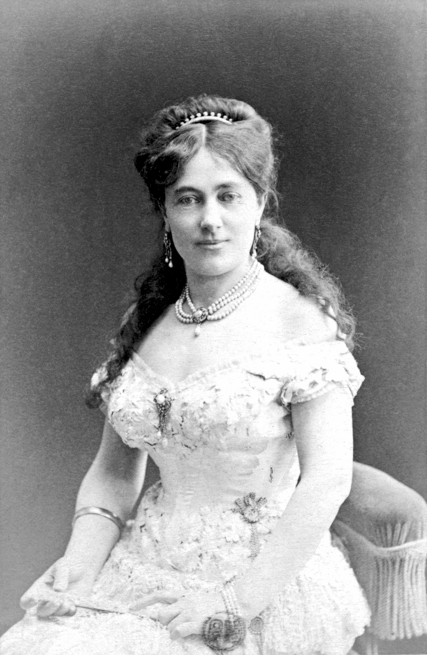 Photograph of Juliette Adam (1836–1936) French author and feminist.